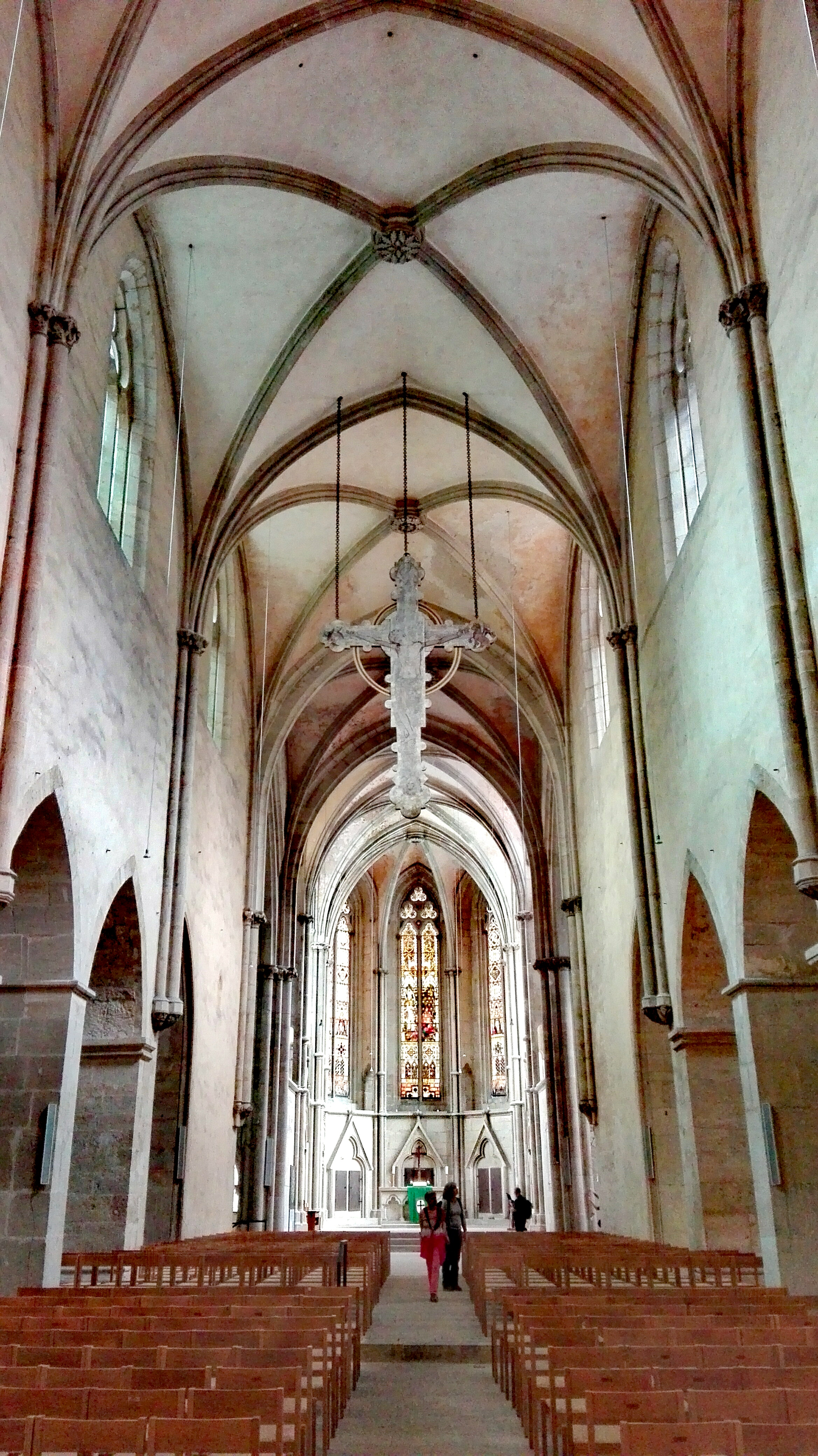 Cistercian church nave and choir